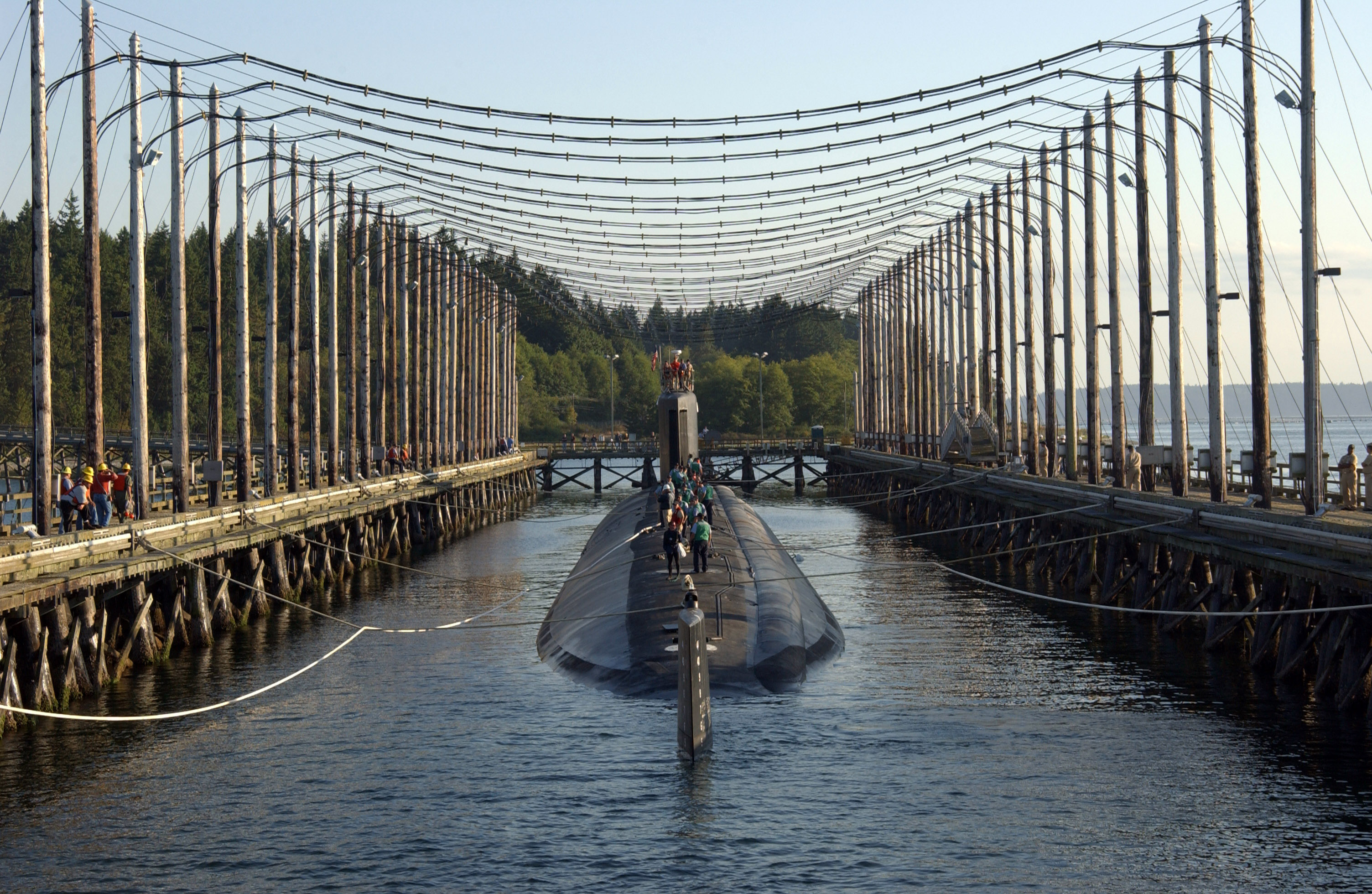 Silverdale, Wash. (Aug. 16, 2006) - The Sea Wolf-class attack submarine USS Jimmy Carter (SSN 23) sits moored in the Magnetic Silencing Facility at Naval Base Kitsap Bangor for her first deperming treatment. The deperming process reduces a ships electromagnetic signature as she travels through the water. Jimmy Carter is the third and final submarine of the Sea Wolf-class. A unique feature of the Jimmy Carter is a 100-foot hull extension called the Multi-Mission Platform, which provides enhanced payload capabilities, enabling the submarine to accommodate the advanced technology required to develop and test a new generation of weapons, sensors and undersea vehicles. U.S. Navy photo by Master Chief Mass Communication Specialist Jerry McLain (RELEASED)